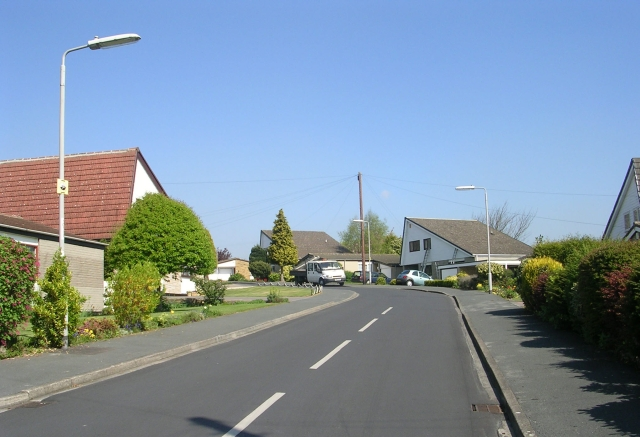 Gipsy Hill - Eastfield Crescent